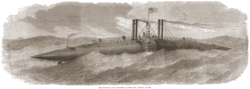 Illustrated London News 1858 engraving of the Winan's Cigar Ship